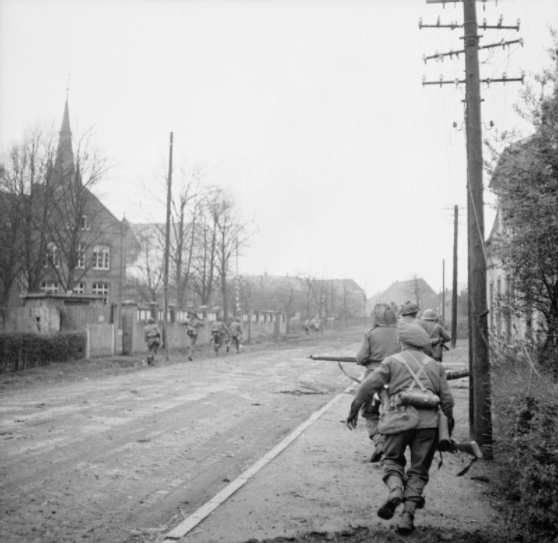 The British Army in North-west Europe 1944-45 Men of the 9th Durham Light Infantry run along a street in Weseke, 29 March 1945.